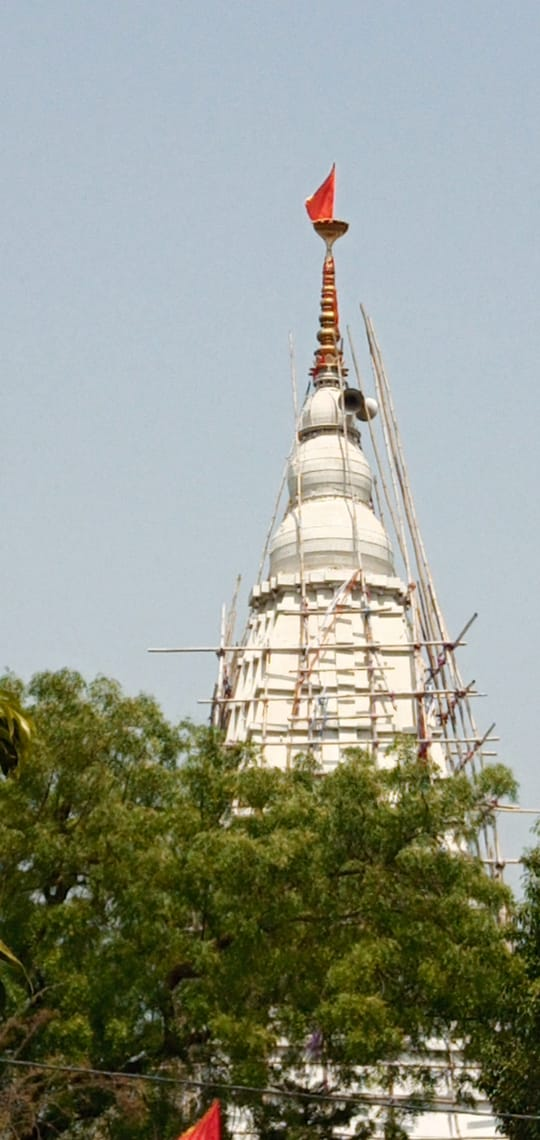 Temple